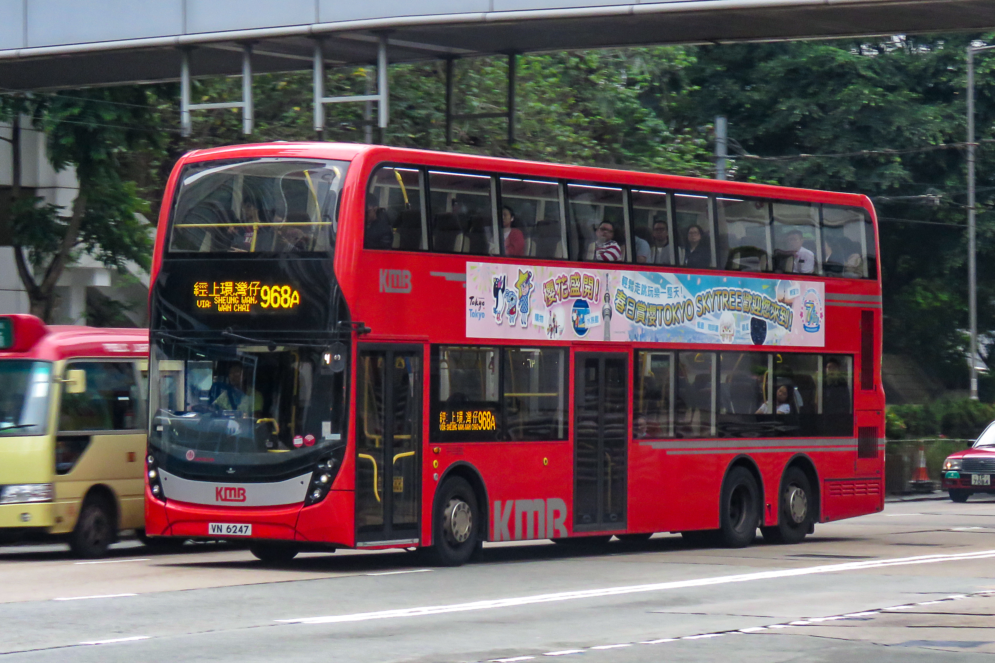 Promoting the Tokyo Skytree in the beginning of Reiwa. 968A serves the Tung Tau Industrial Area in mornings.